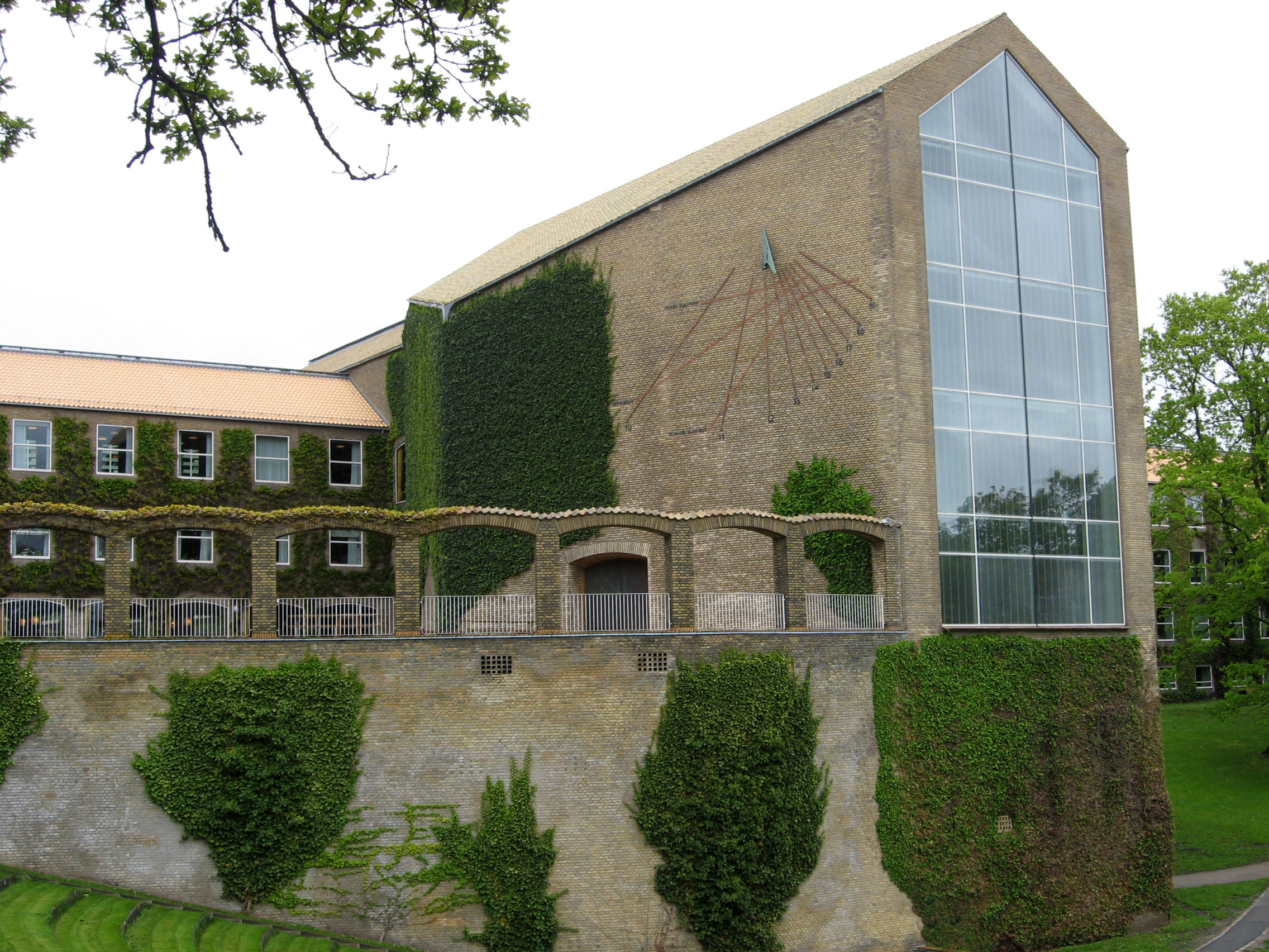 Backside of the main building at Aarhus Universitet in Århus, Denmark.